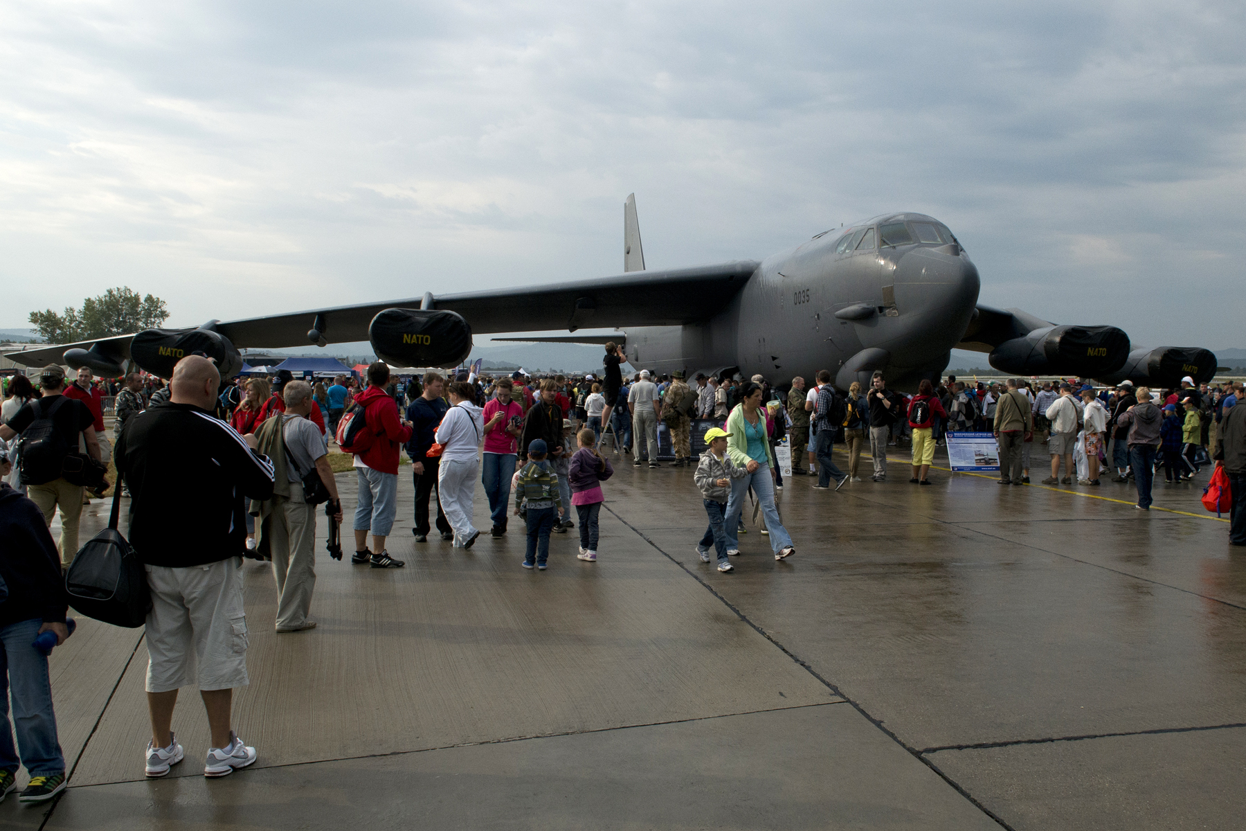 A crowd begins to gather around a 93rd Bomb Squadron B-52H Stratofortress despite rain showers that persisted throughout the first day of the Slovak International Air Fest, Sept. 1, 2012, Sliac, Slovakia. The 93rd BS B-52, assigned to the 307th Bomb Wing, Barksdale Air Force Base, La., made history by being the first B-52 to ever participate in a Slovakian air show. (U.S. Air Force photo by Master Sgt. Greg Steele/Released)